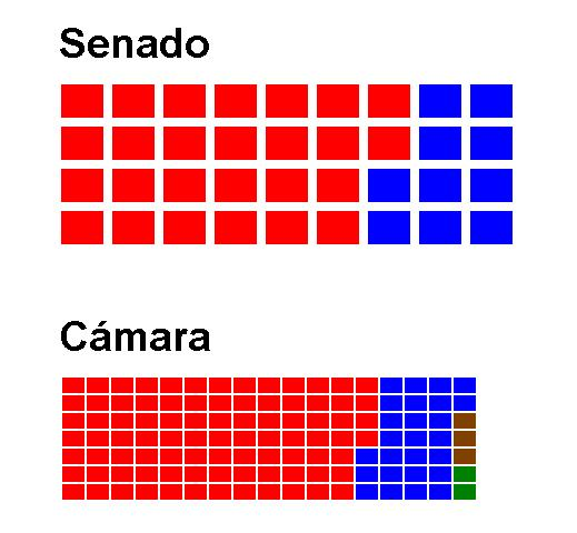 Composition of the Bolivian National Congress after the 2009 general elections. In red, seats held by Movement for Socialism; in blue, seats by Plan Progeso para Bolivia; in brown, seats by National Unity Front; and in green, seats by Alianza Social. Above are represented the seats of Senate, followed by those of the Chamber of Deputies.